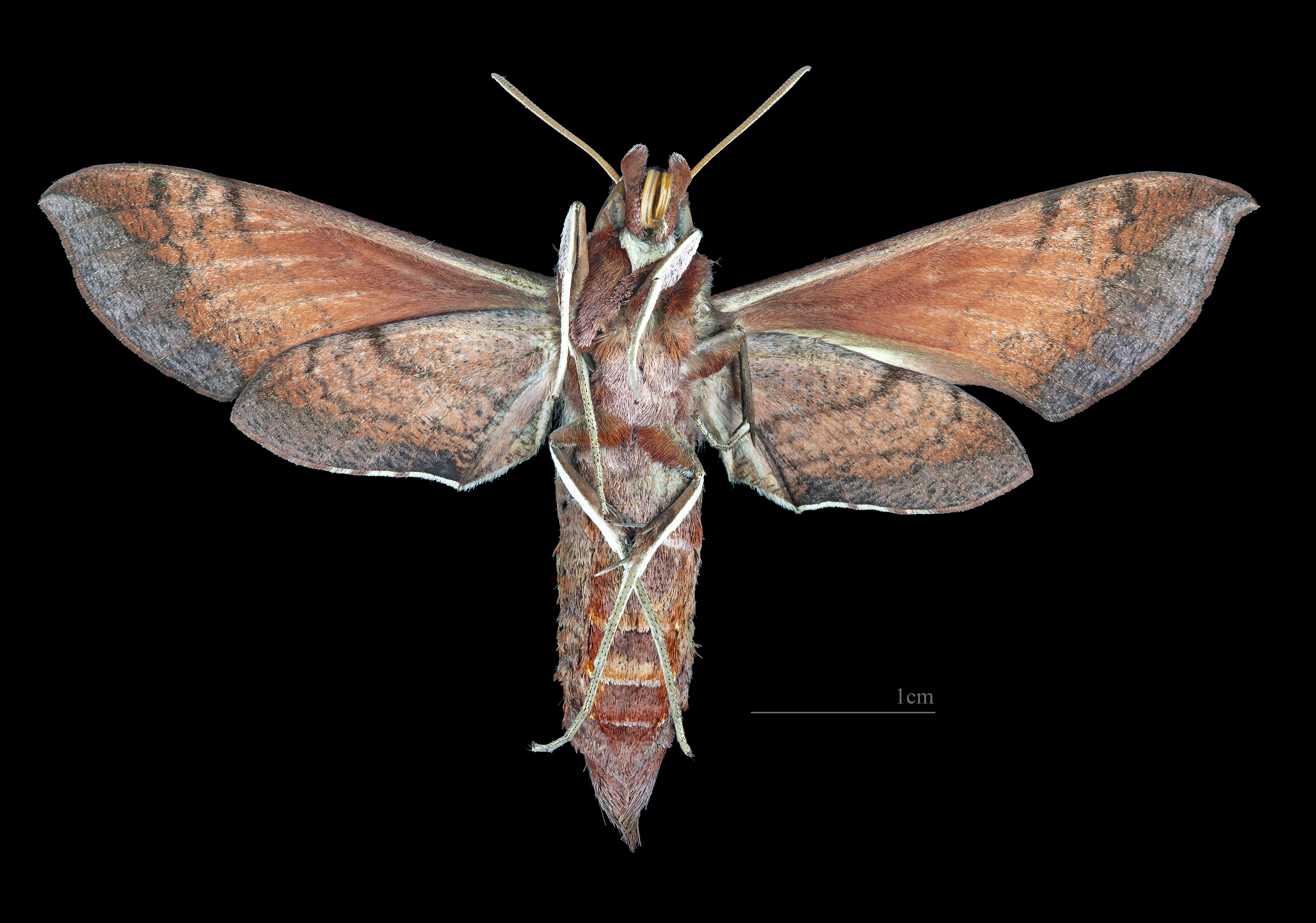 Hippotion brennus - △ Ventral side Collection of the Mathematician Laurent Schwartz